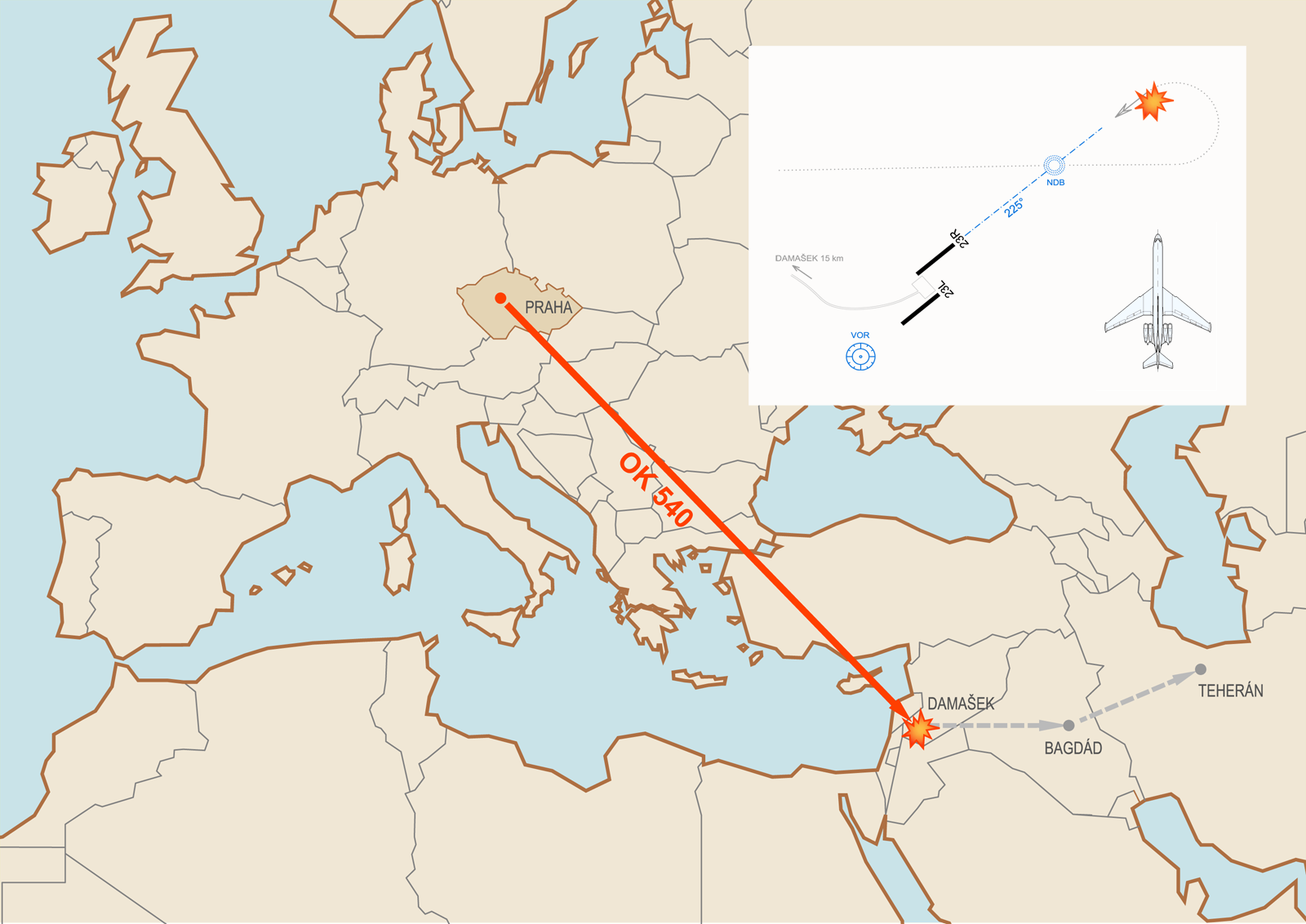 Disaster of ČSA flight 540